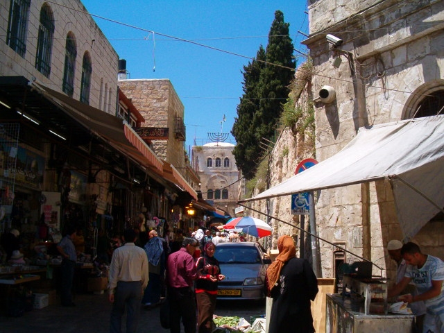 illustrative picture of an Jerusalem street with some shops. The building furthest away is a house owned by former Israeli Prime Minister Ariel Sharon.